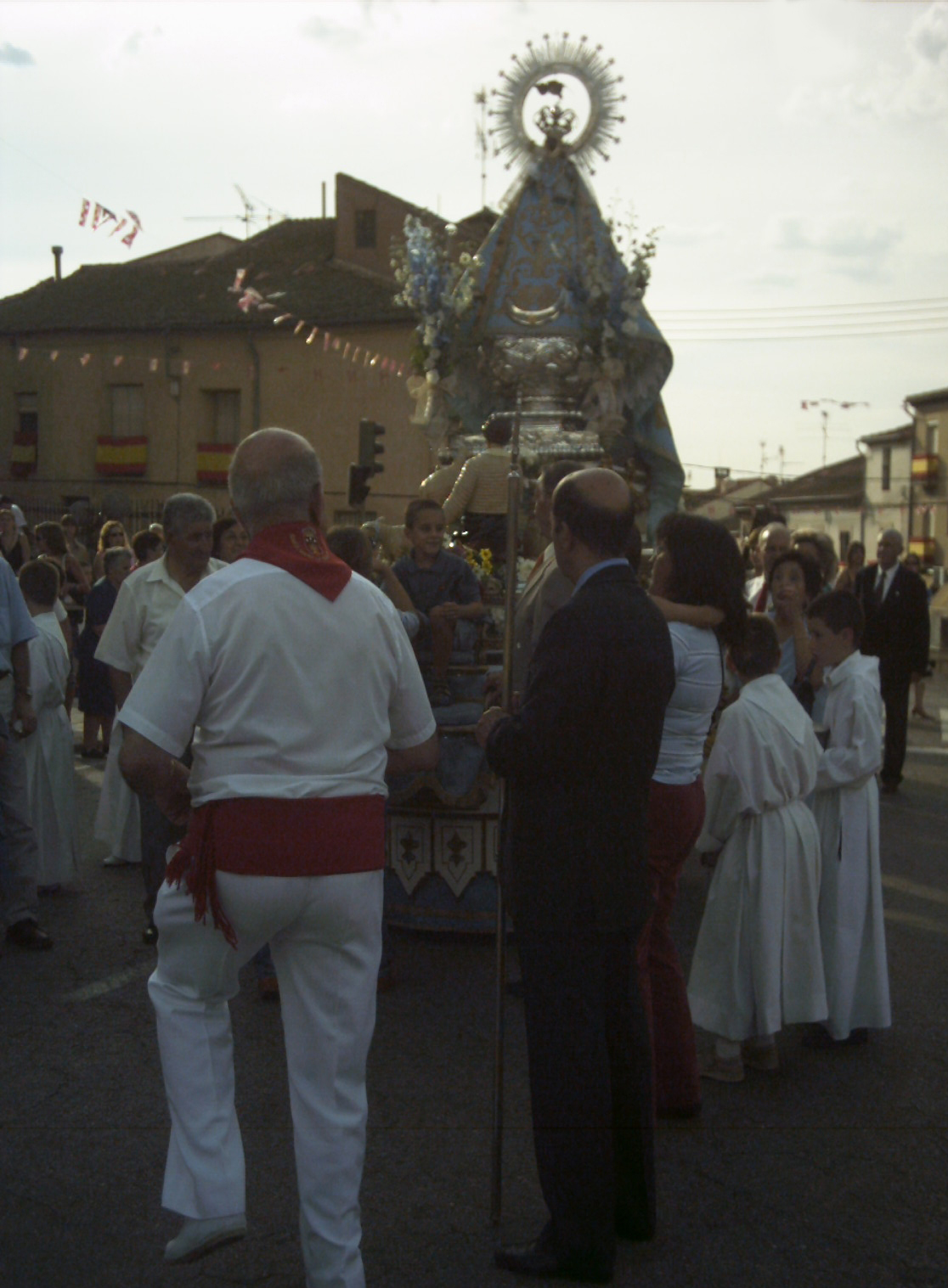 Shot of Soterraña Virgin procession.